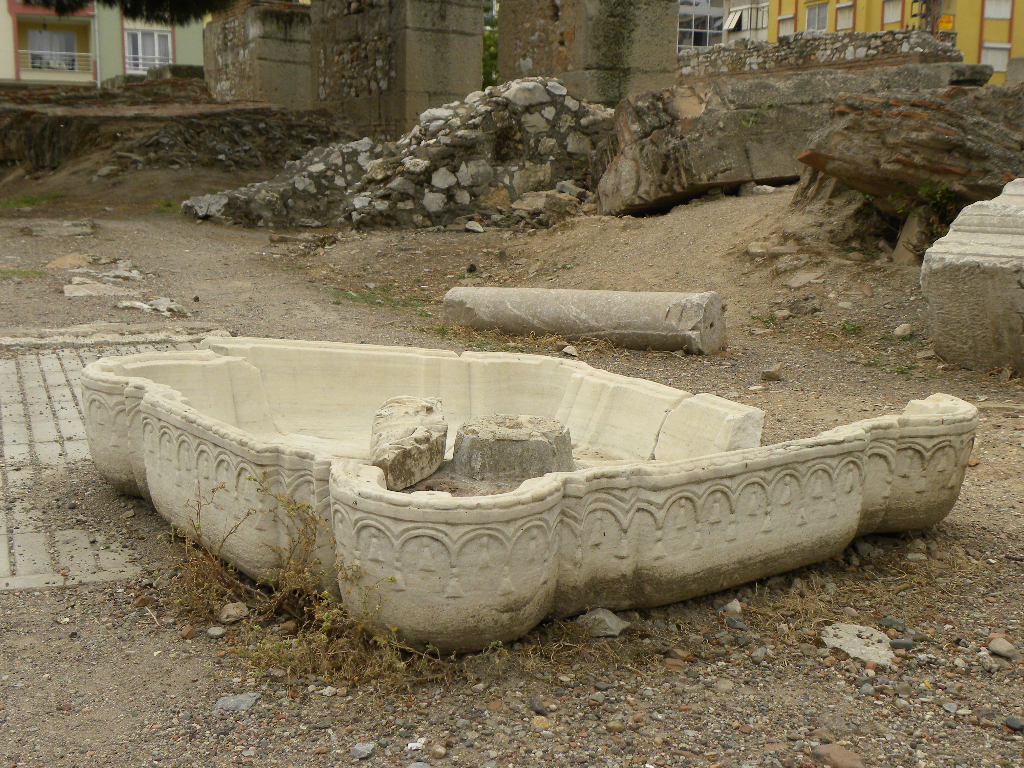 Remains of a Byzantine (?) fountain from Thyatira. Notice the tassle motif around the edges. This is unusual in Roman decoration and actually makes me suspect this piece may actually date from the Seljuk Turkish period.